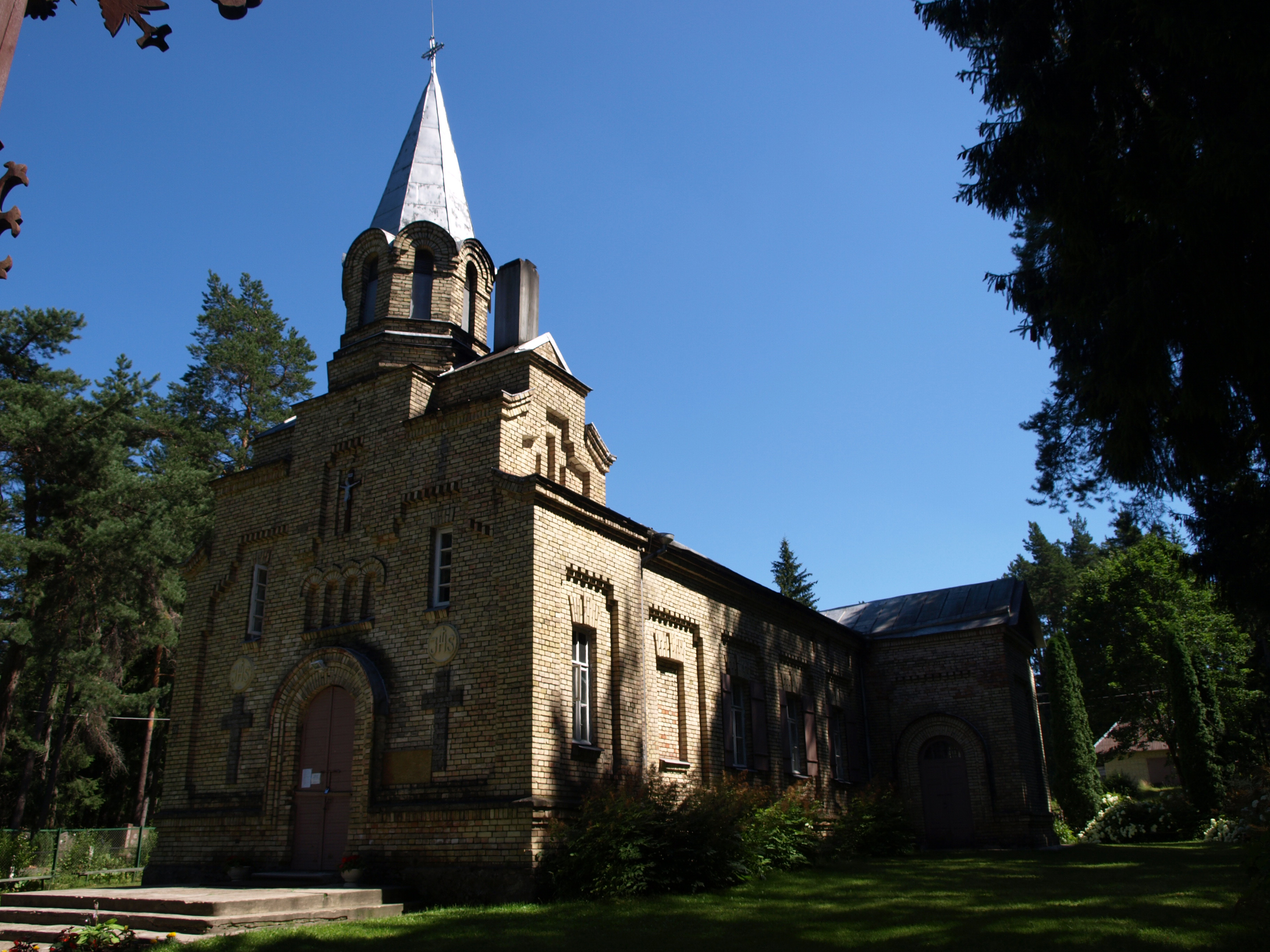 Pabradė St. Juozapatas church, Švenčionys district, Lithuania